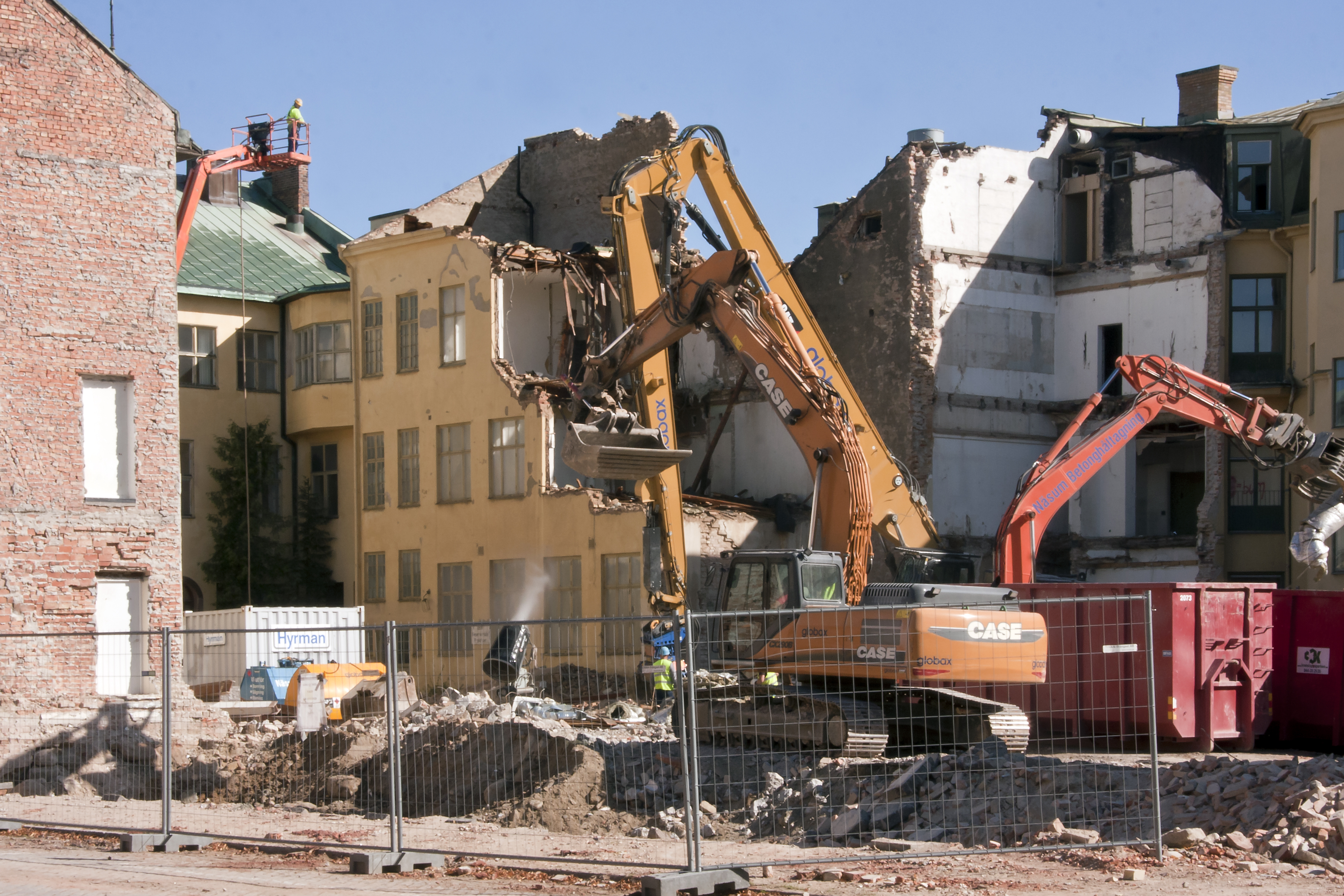 Demolition work in Kristianstad, Sweden.